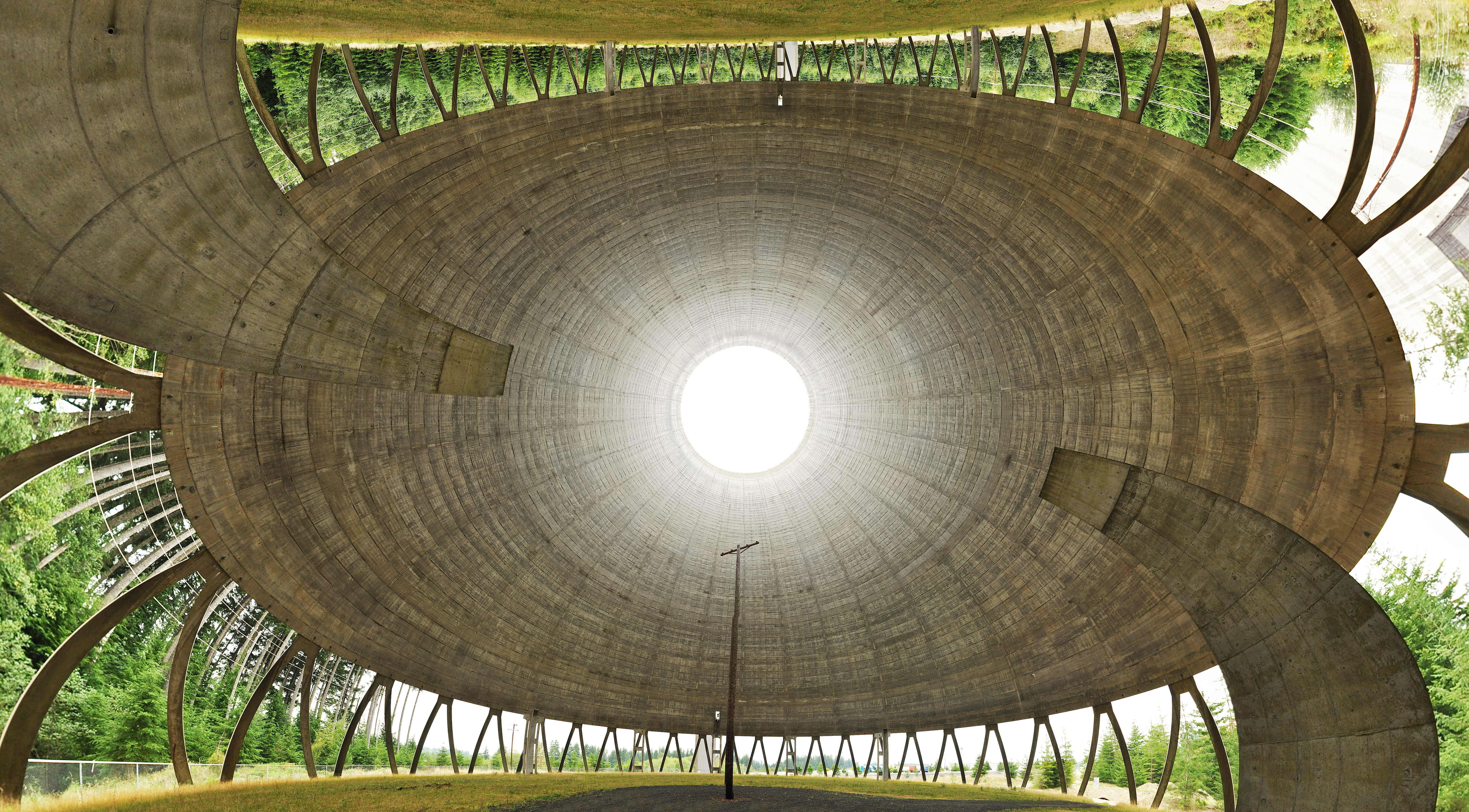 Half sphere (360° x 180°) Mercator Projection panorama from inside an incomplete nuclear cooling tower, part of the unfinished Satsop Nuclear Power Plant, now the Satsop Development Park, Washington State. Photo by Gregg M. Erickson